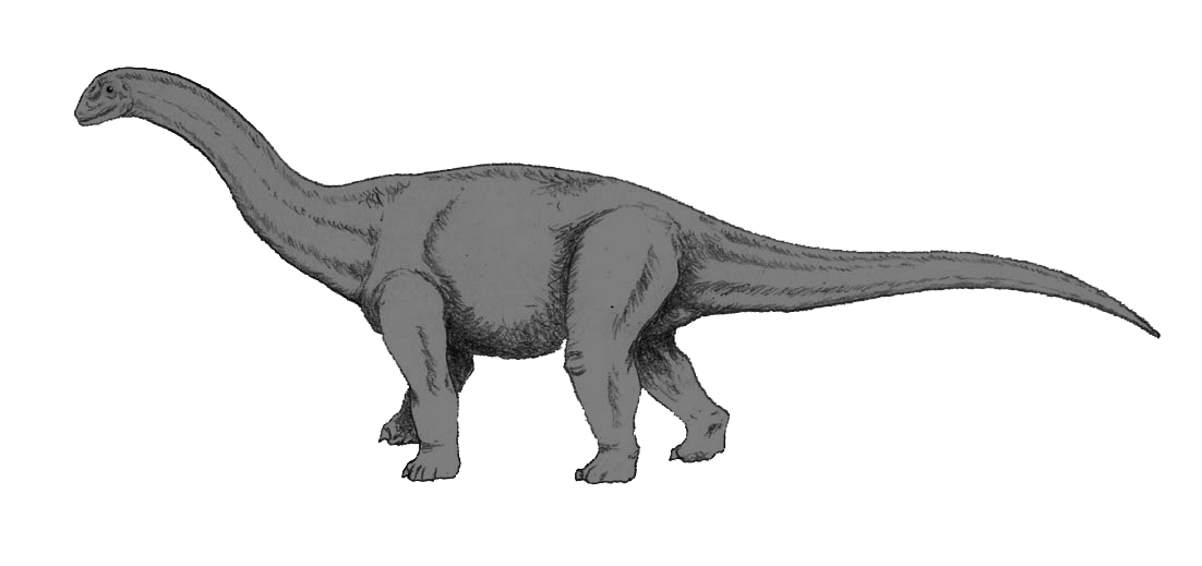 Cetiosaurus, a primitive sauropod from England.